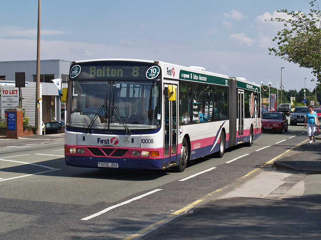 First Manchester Limited 10008 T509 JNA, a Volvo B10LA built 1999 with a Wright ‘Fusion’ ADP55D body on Manchester Road, Bolton at the junction with Bradford Avenue with a Manchester Shudehill Interchange to Bolton Bus Station via Pendleton, Pendlebury and Farnworth 8 service. Tuesday 1st July 2008